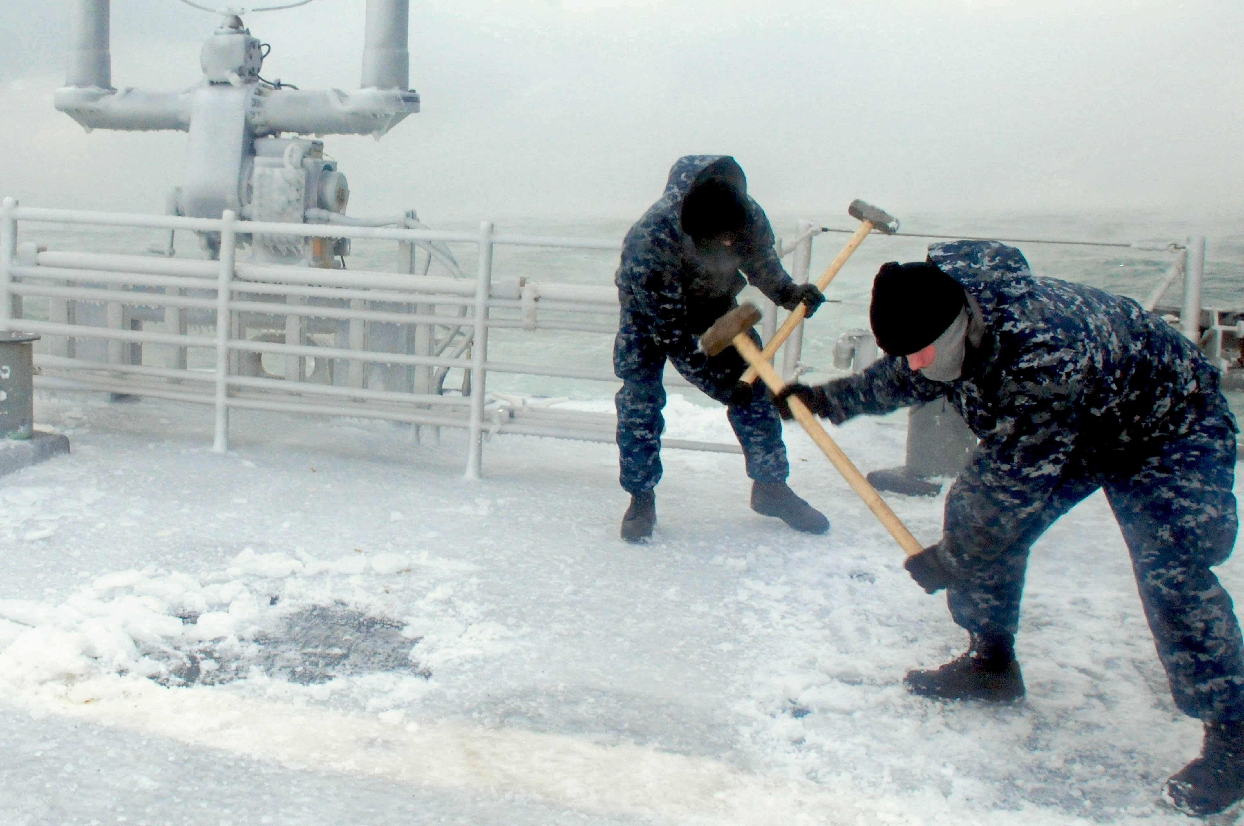 BLACK SEA (Jan. 31, 2012) Sailors aboard the guided-missile cruiser USS Vella Gulf (CG 72) use sledgehammers to break ice from the ship. Vella Gulf is conducting theater security cooperation and maritime security operations in the U.S. 6th Fleet area of responsibility. (U.S. Navy photo by Mass Communication Specialist Seaman Brian Glunt/Released) 120131-N-RN782-045